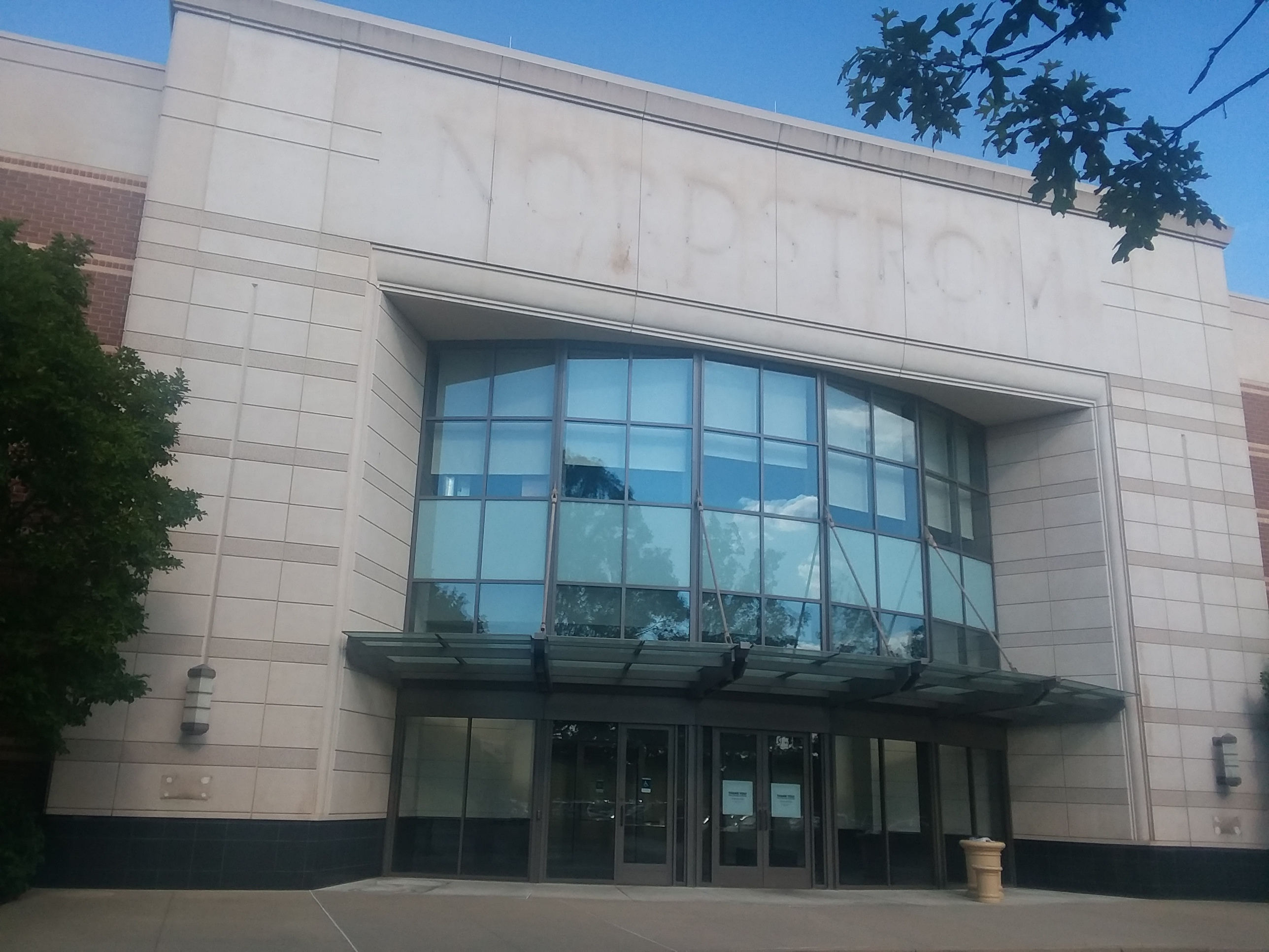 One of the 16 Nordstroms that closed in mid 2020, this one at Short Pump Town Center in Richmond, VA